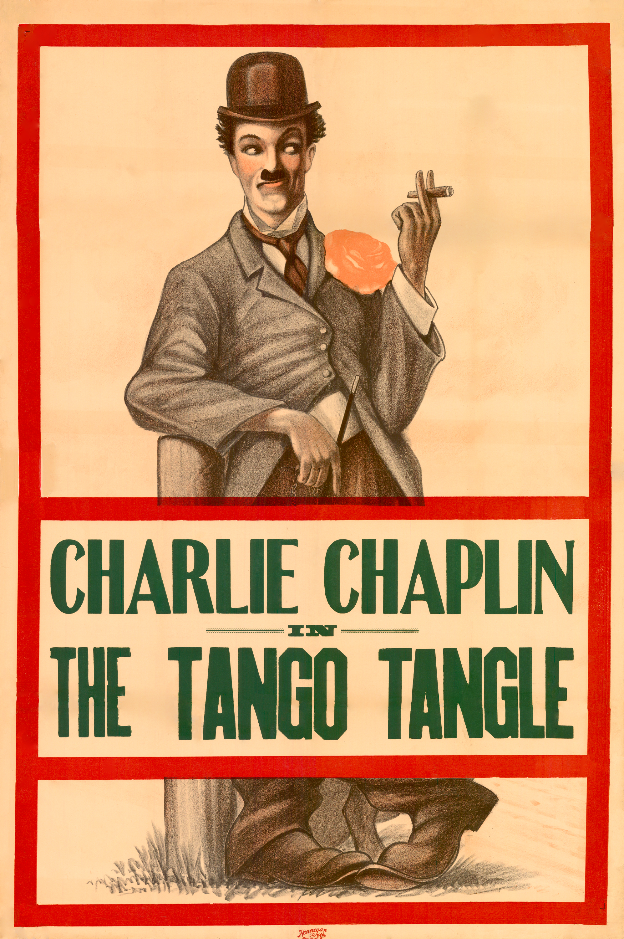 Film poster for Tango Tangle (1914).